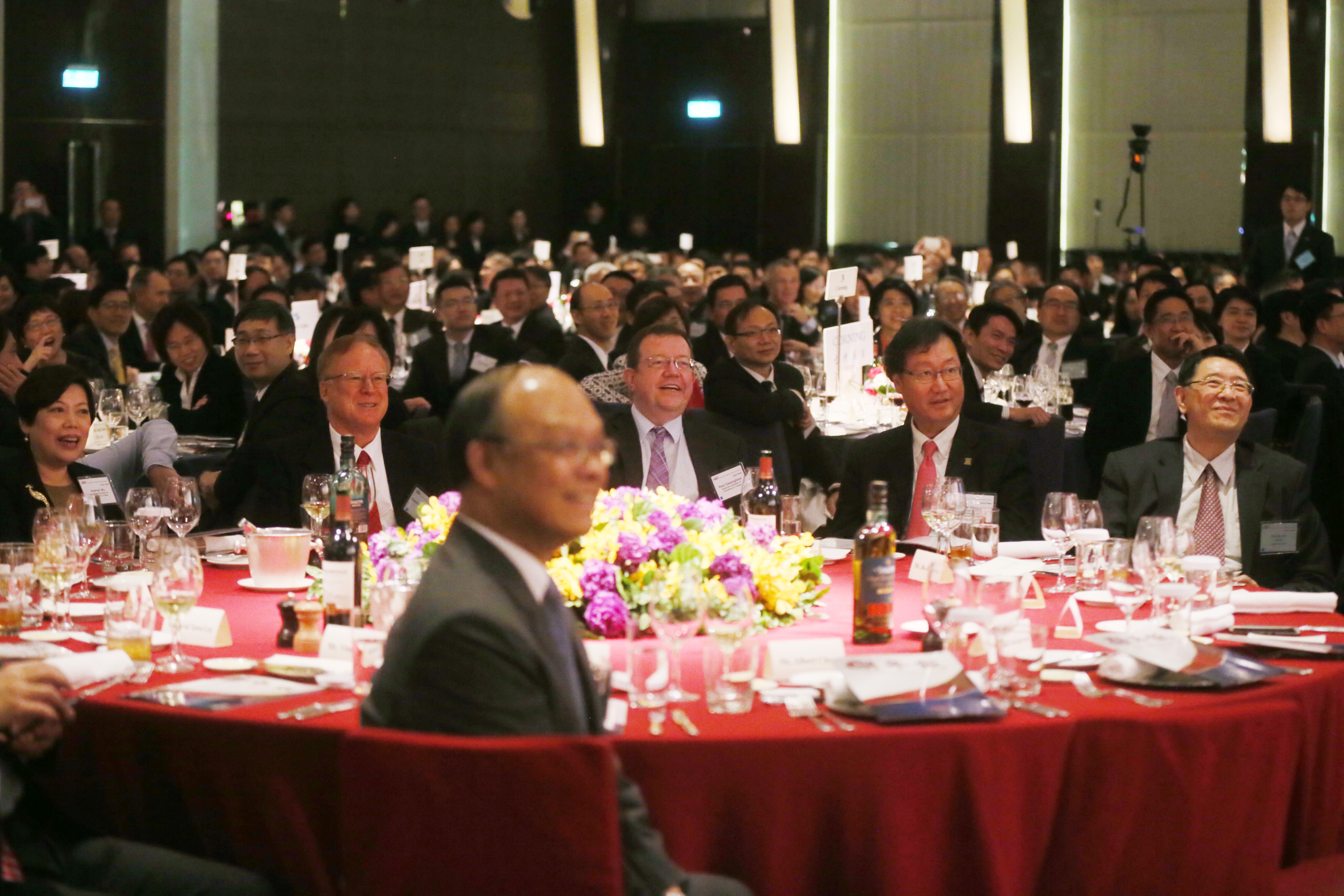 授權方式及範圍：中華民國總統府│政府網站資料開放宣告 Authorization Method & Scope: Office of the President, Republic of China (Taiwan) | Government Website Open Information Announcement